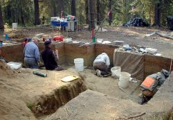 Excavation at Swan Point Archeological Site in central eastern Alaska.